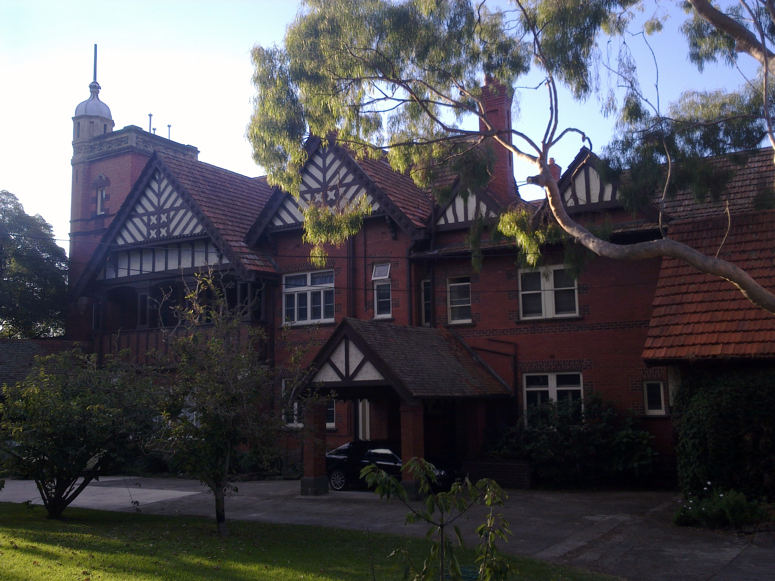 Edzell Mansion, Toorakm Victoria